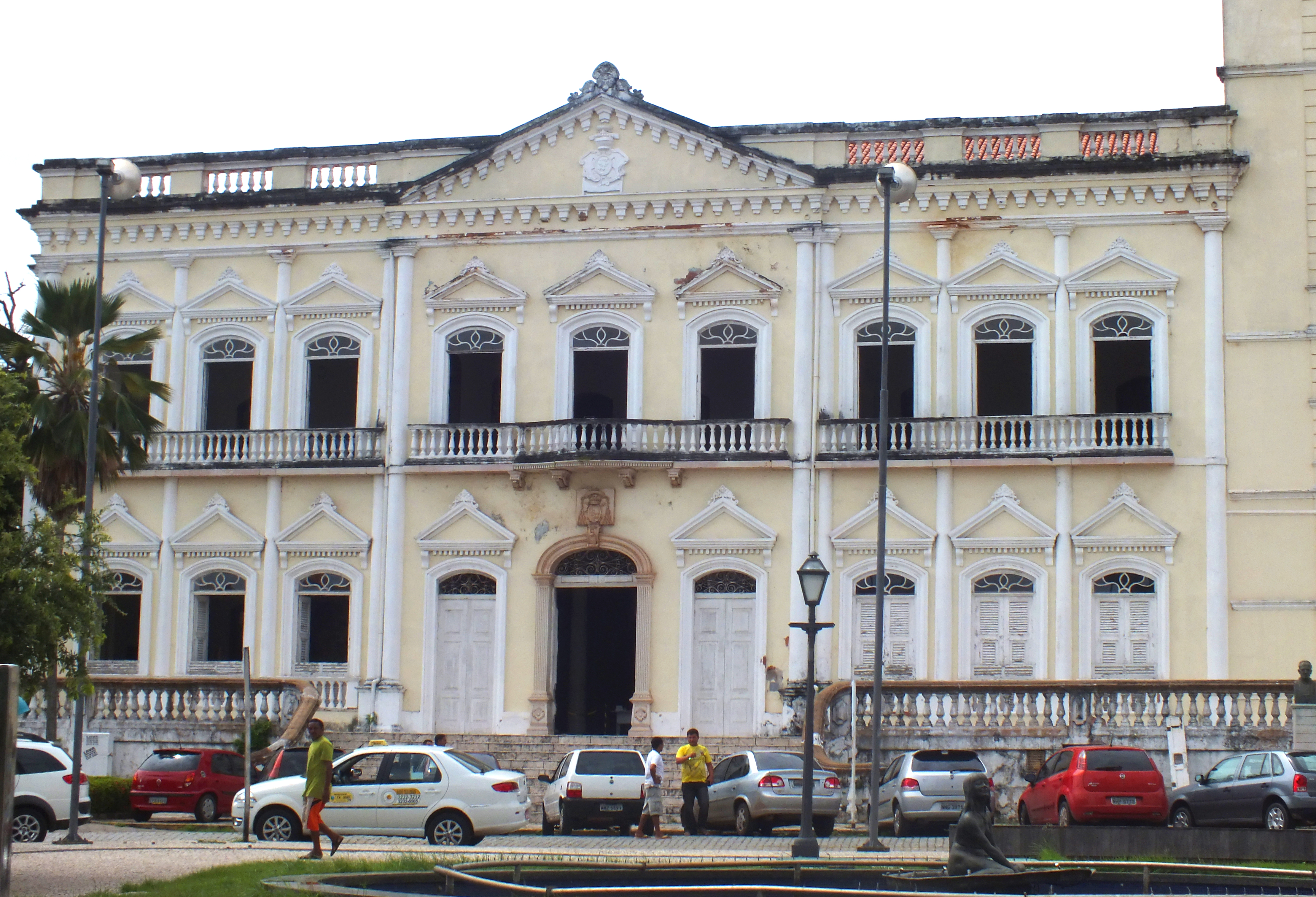 Episcopal Palace of São Luís in the state of Maranhão, Brazil